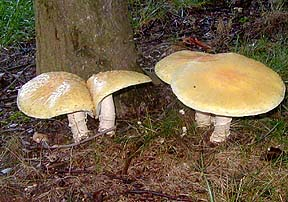 Micoryza Amanita muscaria and white pine tree Pinus alba